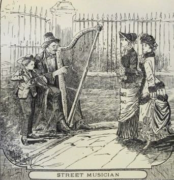 Harpist plays a portable diatonic harp, accompanied by a small boy on the violin.